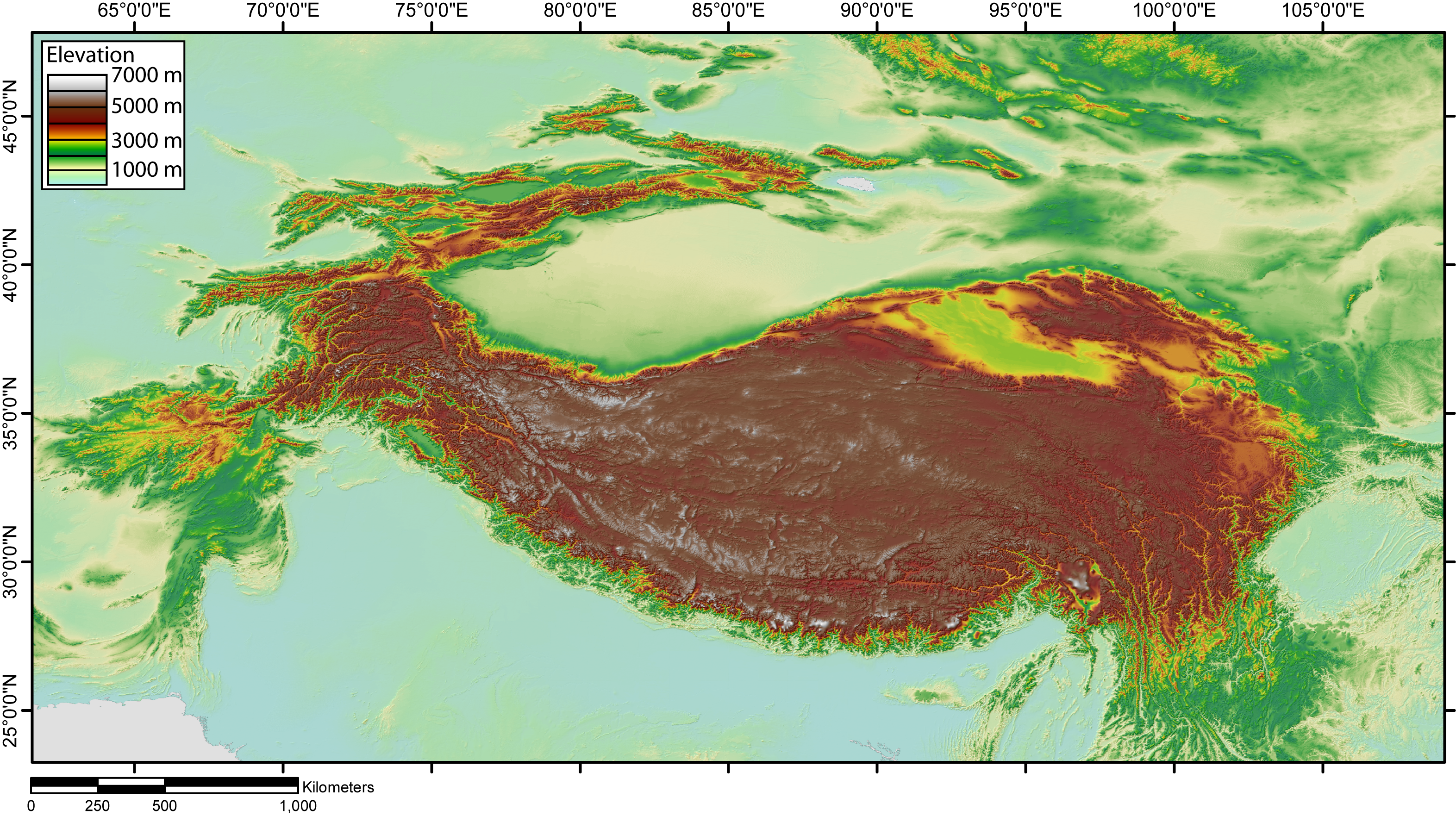 DEM topographic map of Central, Southern,, and Western Asia. Showing the Tibetan Plateau, Himalaya, Tien Shan, Qilian Shan, Tarim Basin, and Gobi Desert. Credits created by Jide fron the GTOPO database.